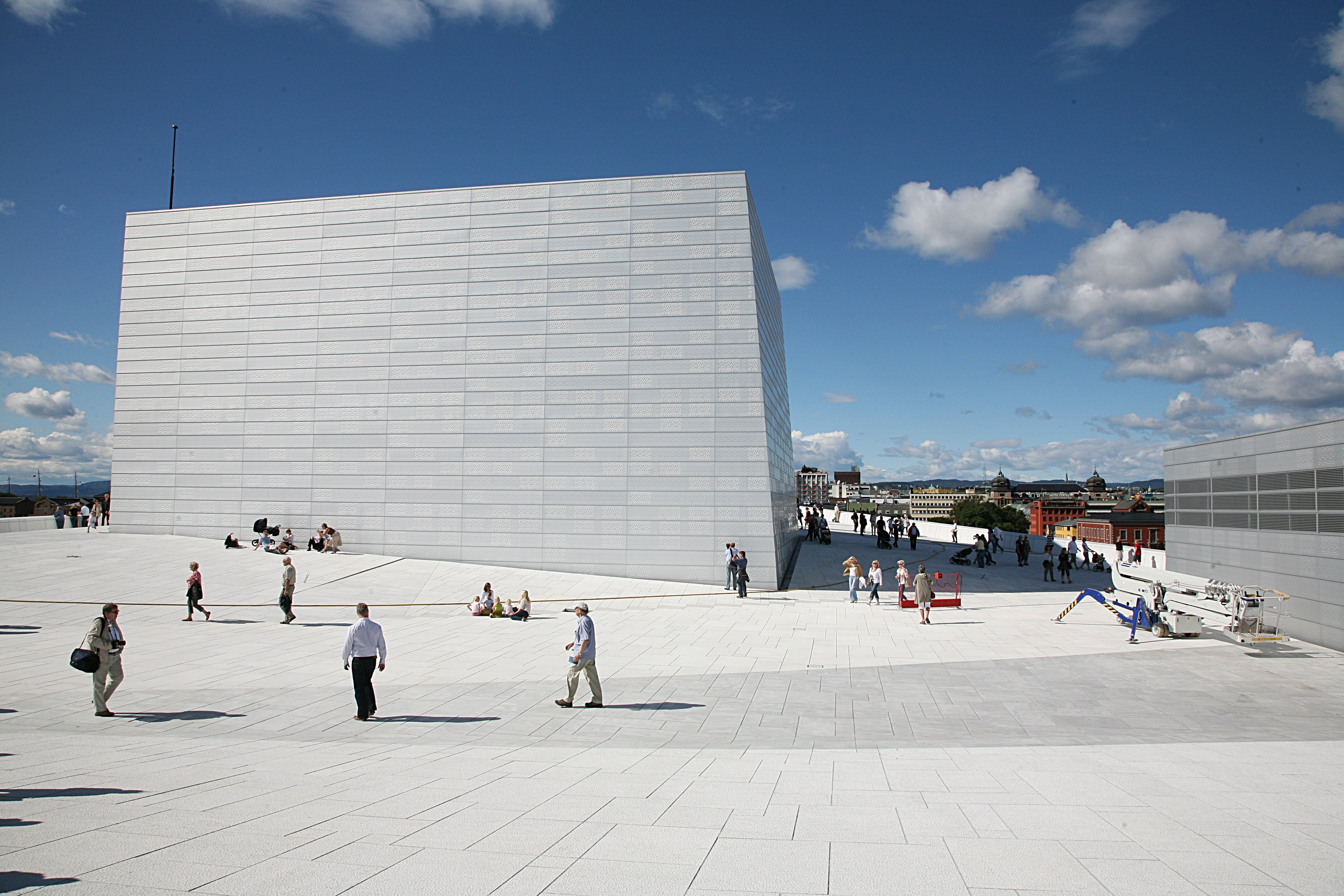 From the top of the roof of the new opera house in Bjørvika Oslo. Picture taken during "open roof day" August 26. 2007.